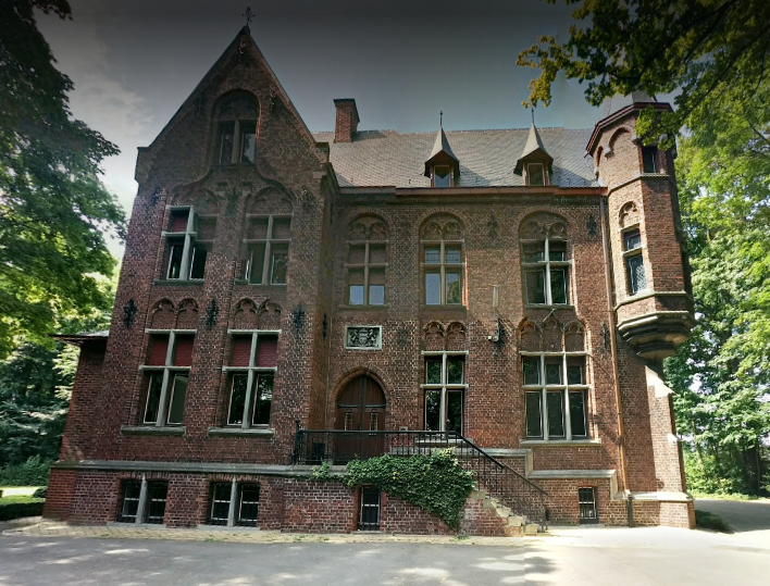 Kasteel Blommeghem Marke